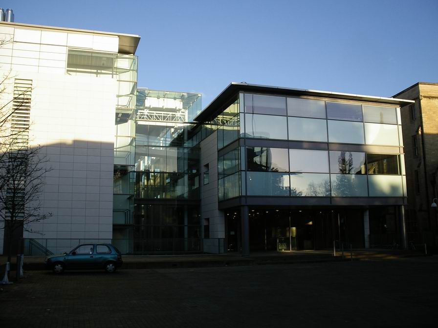 A picture of the entrance to the Chemistry Research Laboratory at the University of Oxford.